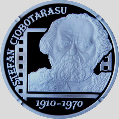 Front of a 2010 coin issued by National Bank of Romania depicting the Romanian actor Ștefan Ciobotărașu.